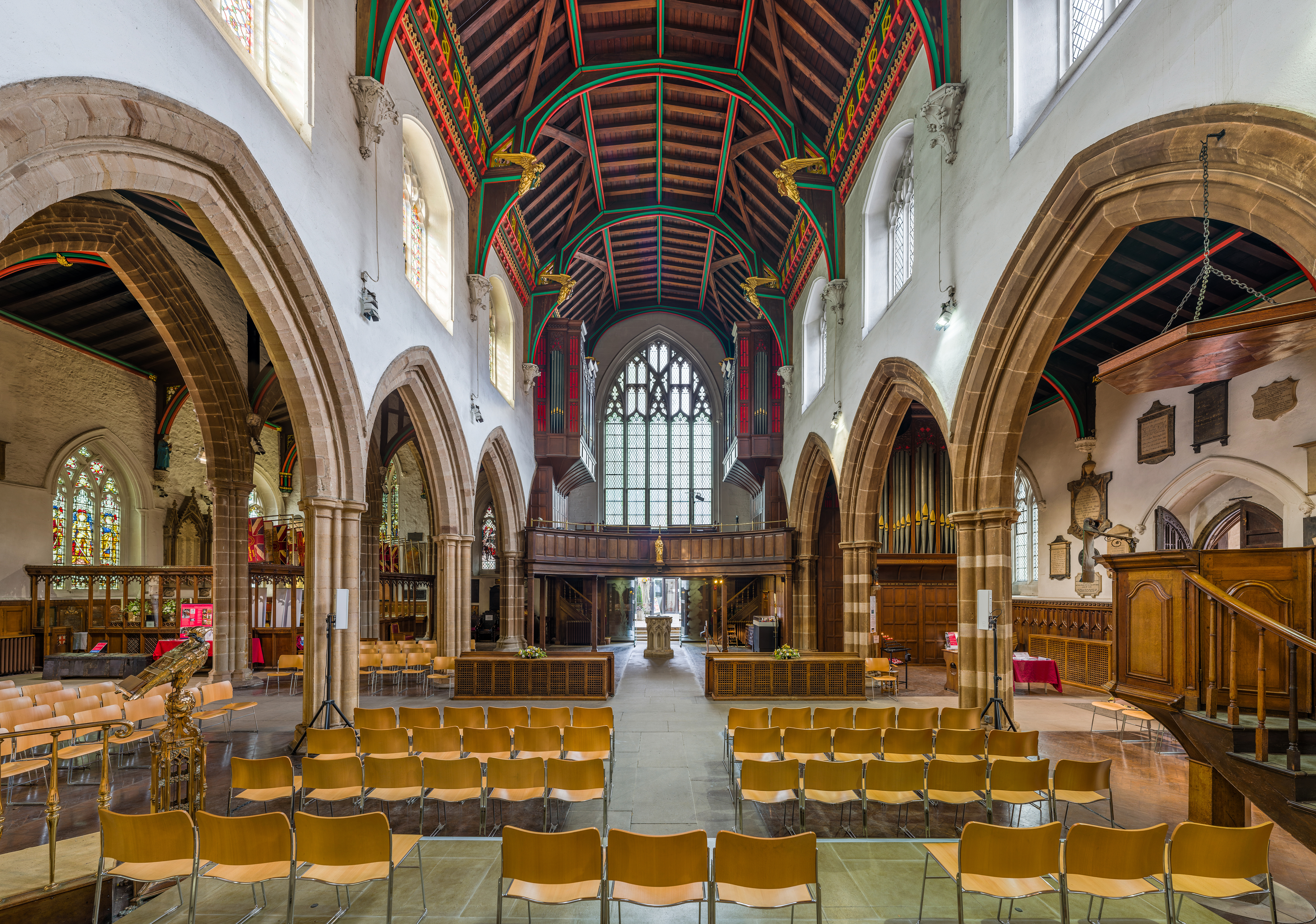 The nave of Leicester Cathedral looking west, in Leicestershire, England.